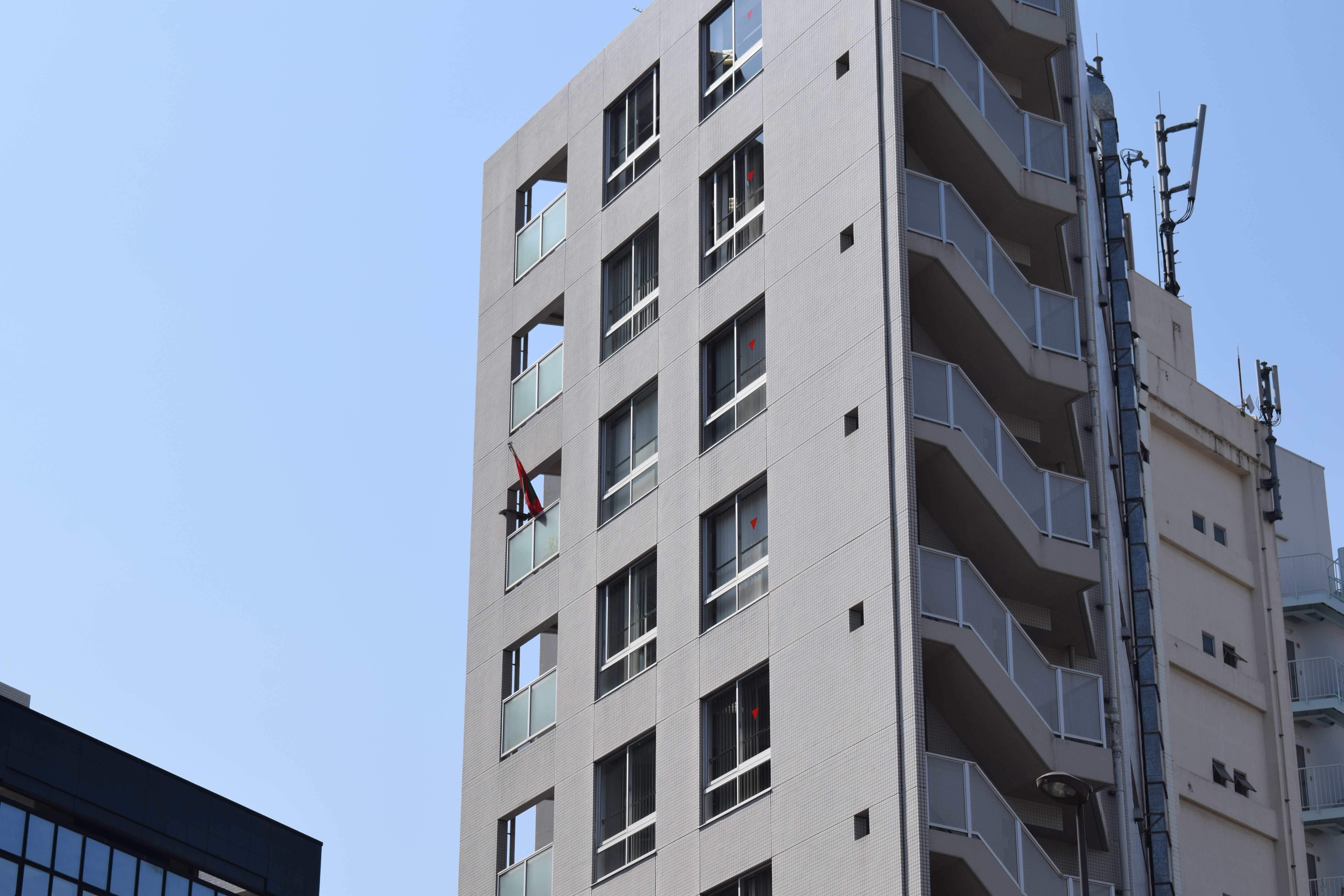 embassy: subst:PAGENAME subst:#if:| {2 }: subst:PAGENAME | subst:#if:| {3 }: subst:PAGENAME | subst:#if:| {4 }: subst:PAGENAME | subst:#if:| {5 }: subst:PAGENAME | subst:#if:| {6 }: subst:PAGENAME | subst:#if:| {7 }: subst:PAGENAME | subst:#if:| {8 }: subst:PAGENAME | subst:#if:| {9 }: subst:PAGENAME | subst:#if:| {10 }: subst:PAGENAME